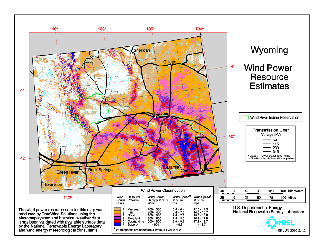 Average annual wind power distribution for Wyoming, 50m height above ground, also showing location of existing electrical transmission lines